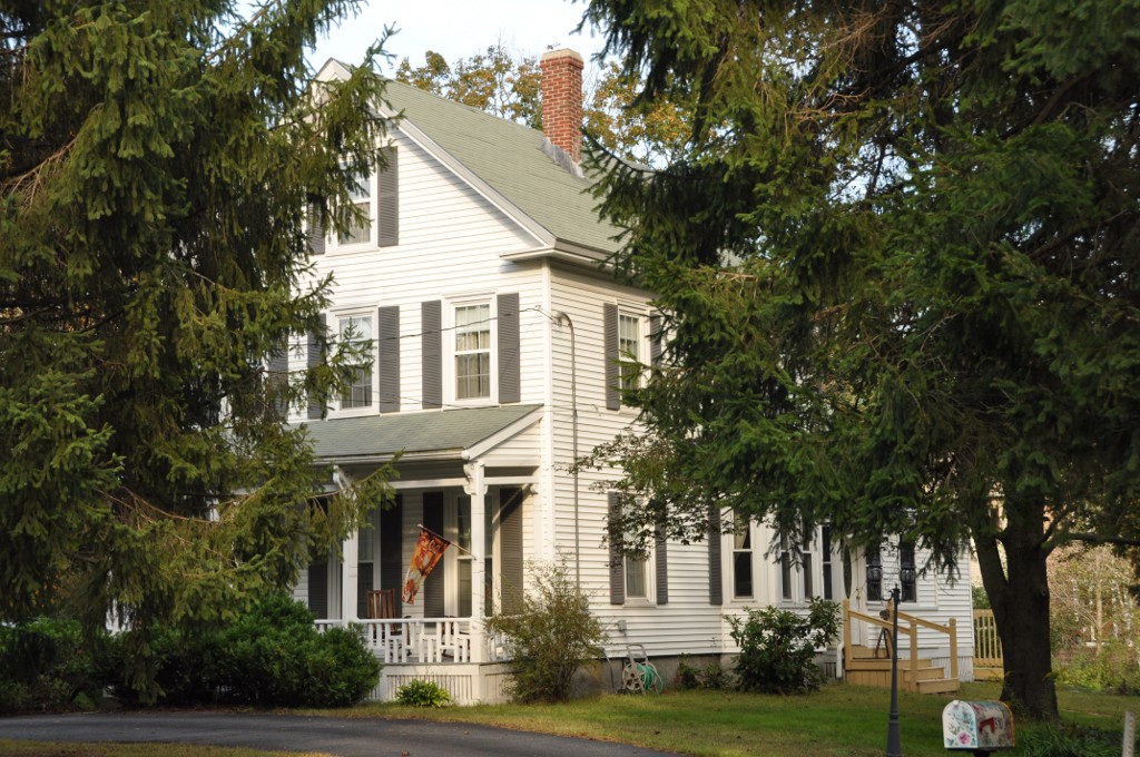 House at 590 Woburn Street in Wilmington, Massachusetts. A Historic contributing property to the Buck's Corner Historic District.